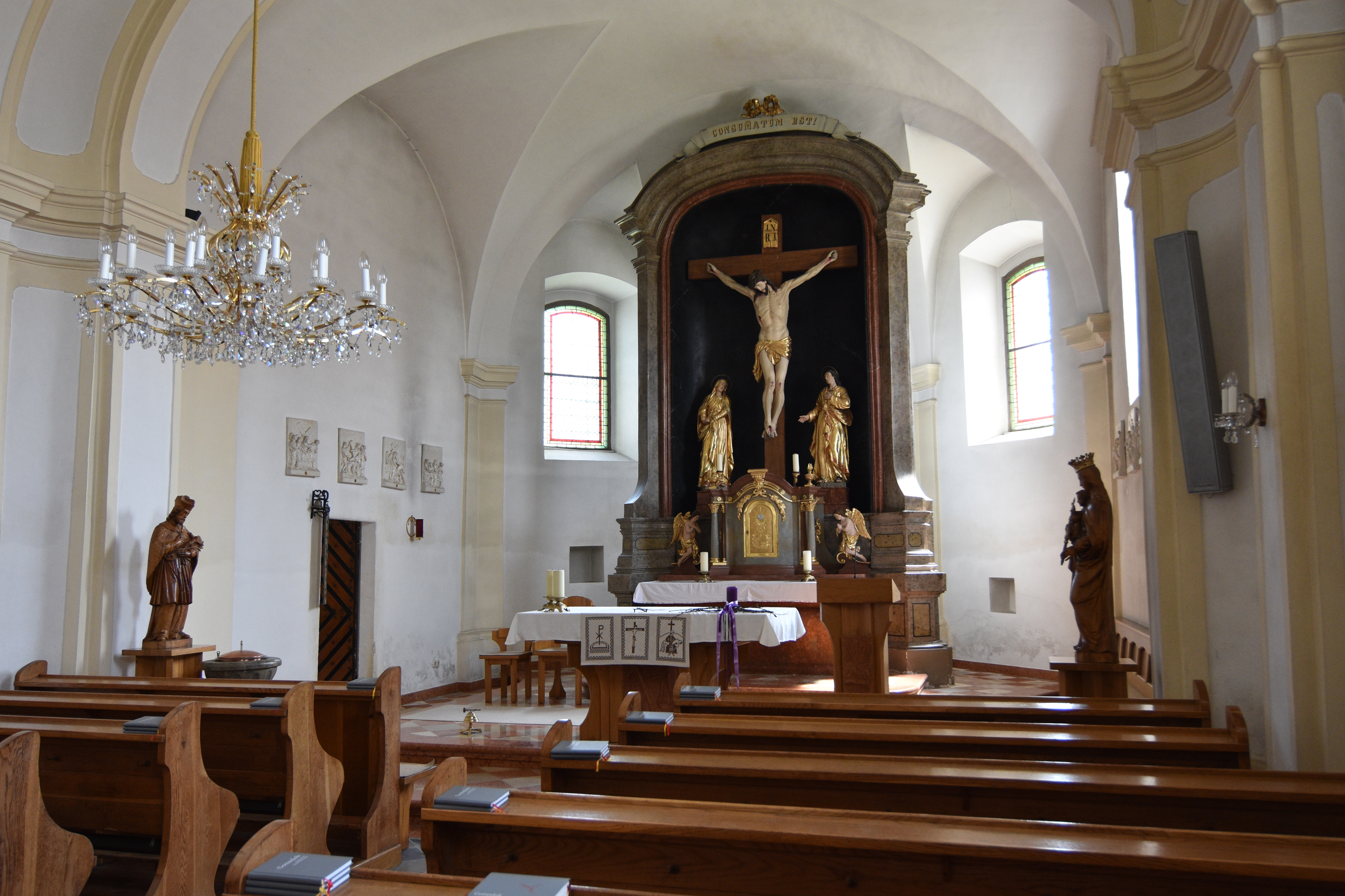 Church Bernstein im Burgenland - Interior